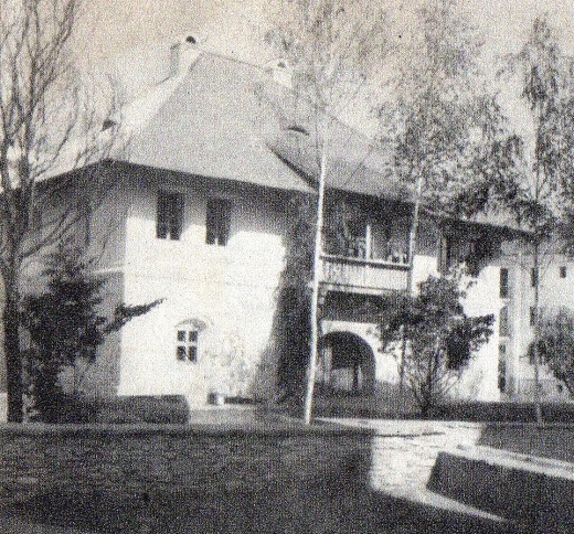 The Princely Inn in Suceava (The Ethnographic Museum) in an old photo.